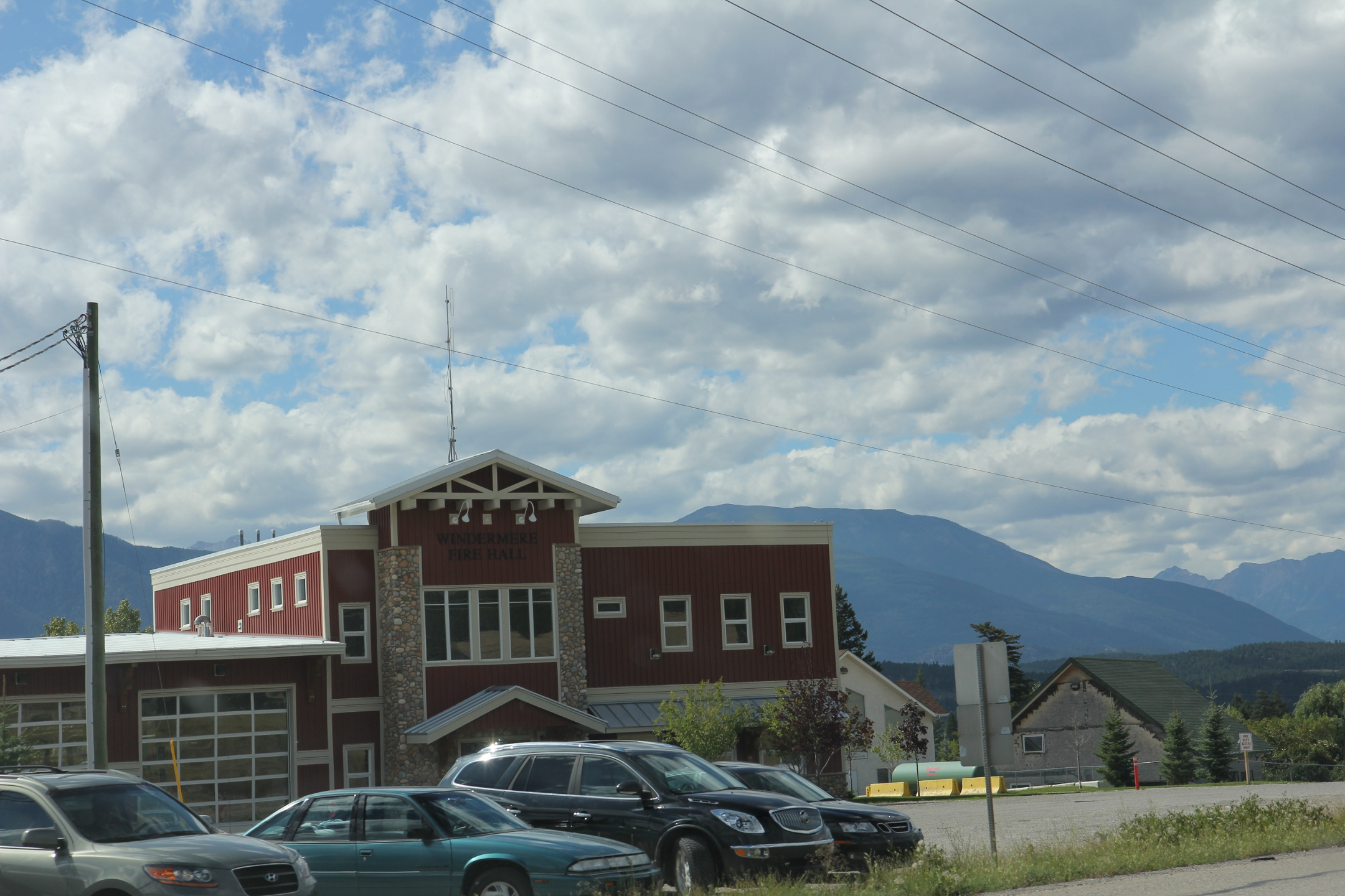 Windermere, BC Fire Hall on BC93 / BC95.